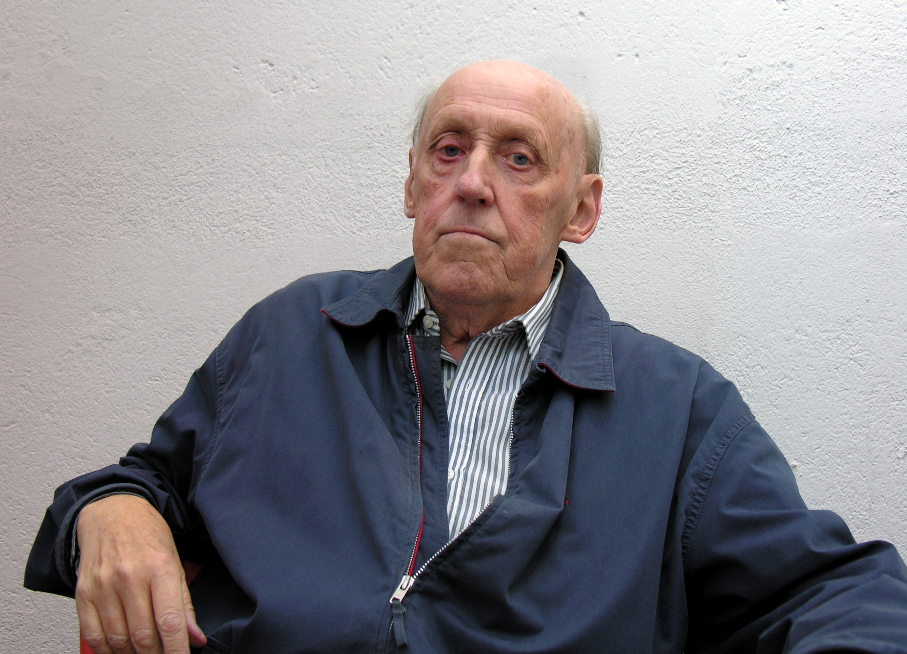 Bo Carpelan (1926–2011), Finnish writer, the Night of the Arts in Helsinki, August 2008.